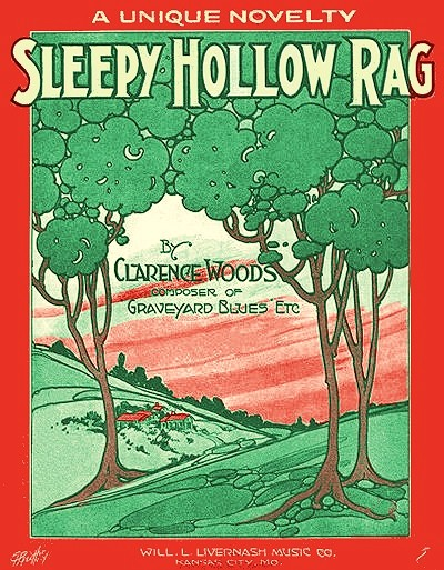 Sleepy Hollow Rag, 1918